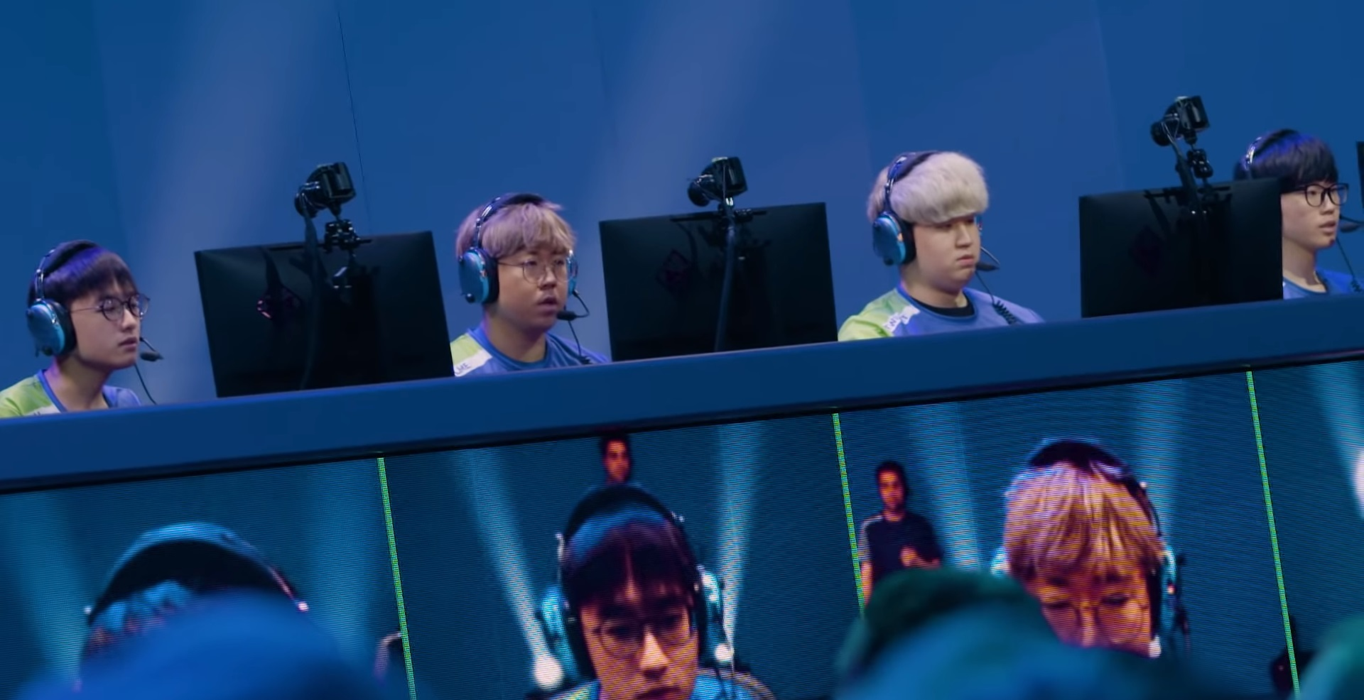 Members of Vancouver Titans playing at the Blizzard Arena on April 18, 2019. From left to right: Haksal, SLIME, Twilight, JJANU